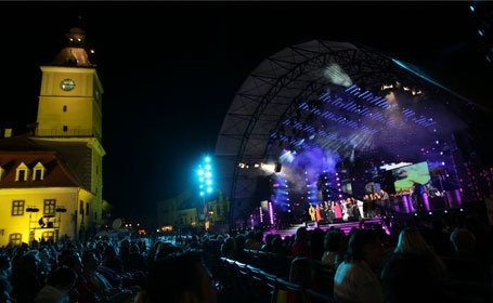 Golden Stag stage